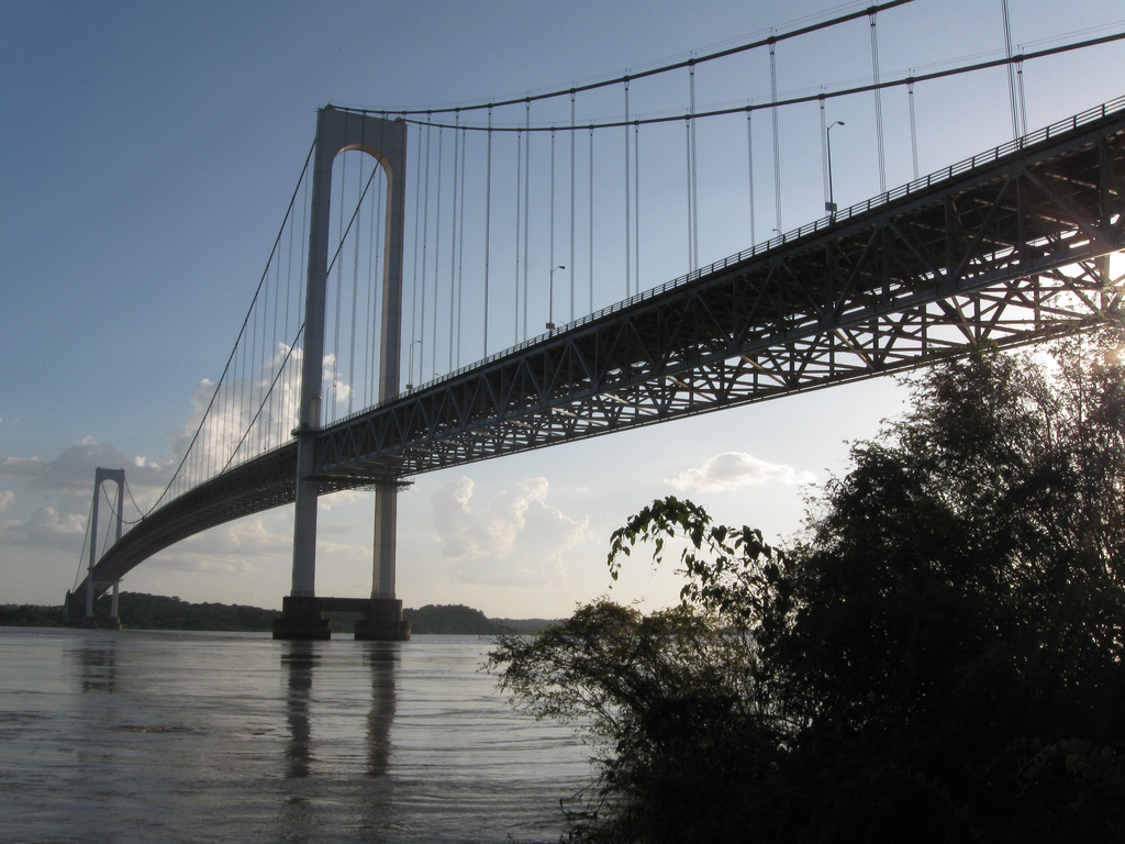 Angostura Bridge, Orinoco River, Venezuela